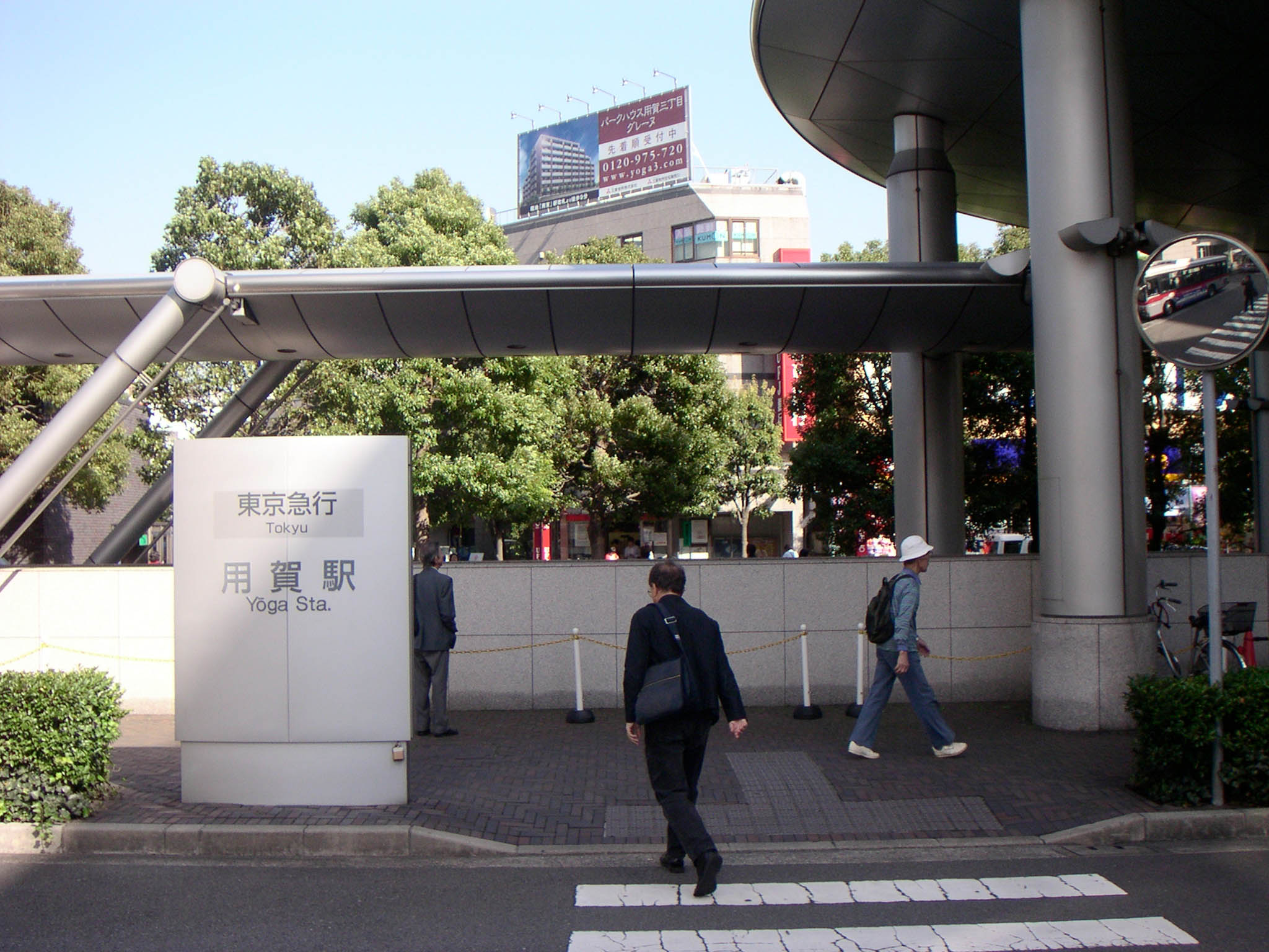 Yoga Station, Denentoshi Line, Tokyo, Japan